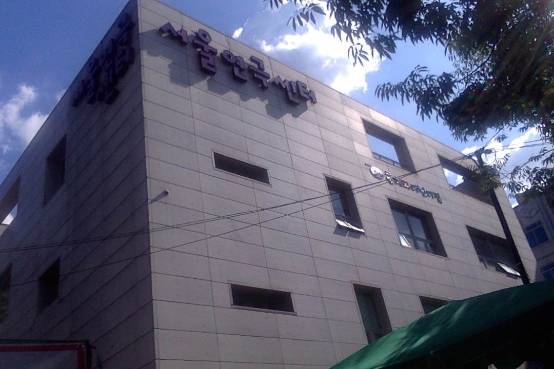 Seoul Theater Center